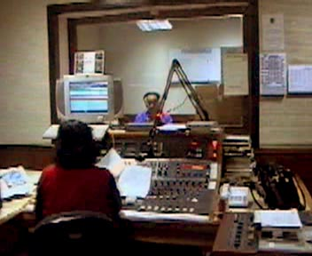 One of a studio (with a broadcasting activity) in Radio Republik Indonesia.